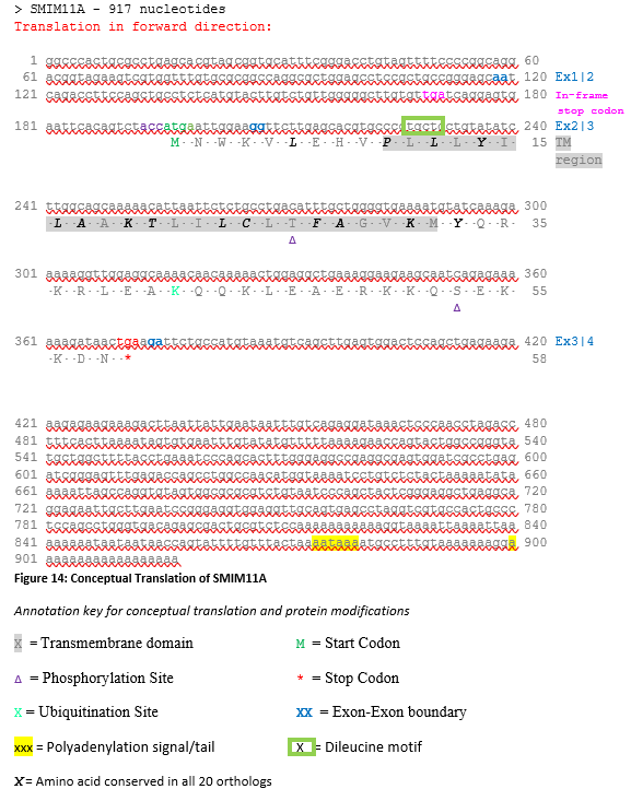 Conceptual Translation SMIM11A